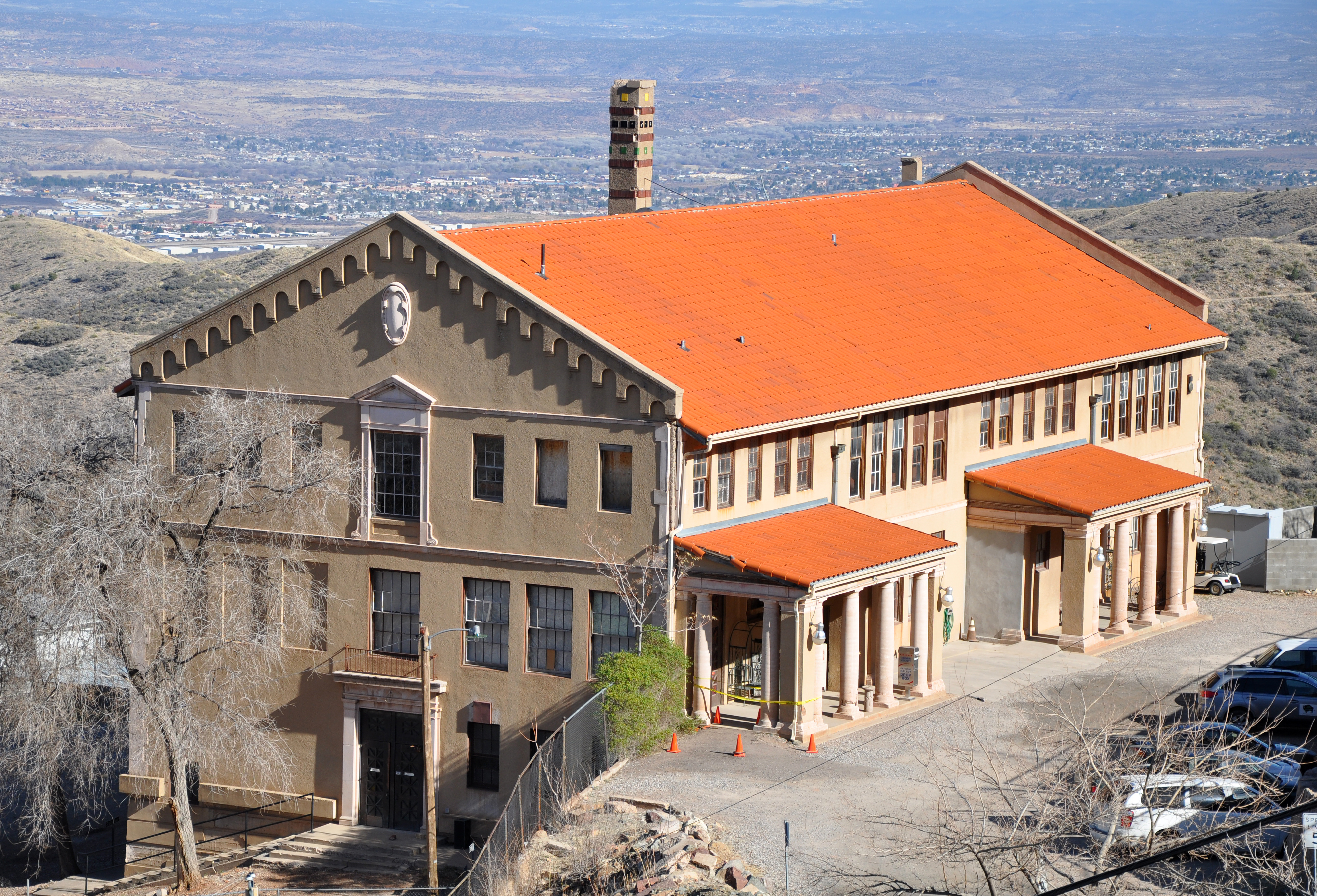 Civic Building in Jerome in the U.S. state of Arizona. According to the Jerome, Arizona, Tourguide published by the Haven United Methodist Church in Jerome, the Civic Building was originally the Clark Street Elementary School, which closed in the early 1950s. Since then, the building has become home to City Hall, the Jerome Library, and the Jerome Humane Society. In the background is the Verde Valley.